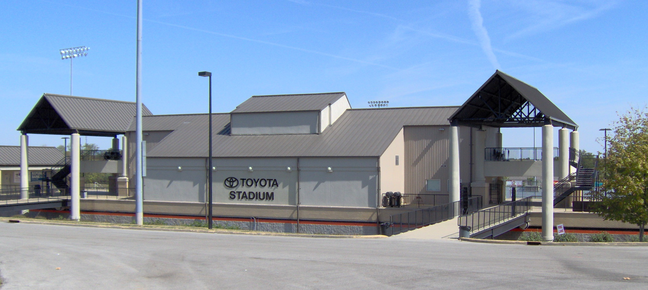 Toyota Stadium, Georgetown College (Kentucky)'s athletic stadium and the location of the Cincinnati Bengals pre-season training camp.